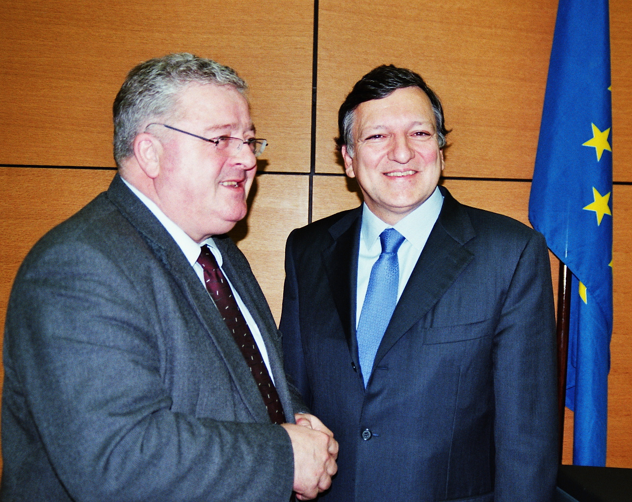 Czesław Siekierski (left) and Jose Barrosso (right).